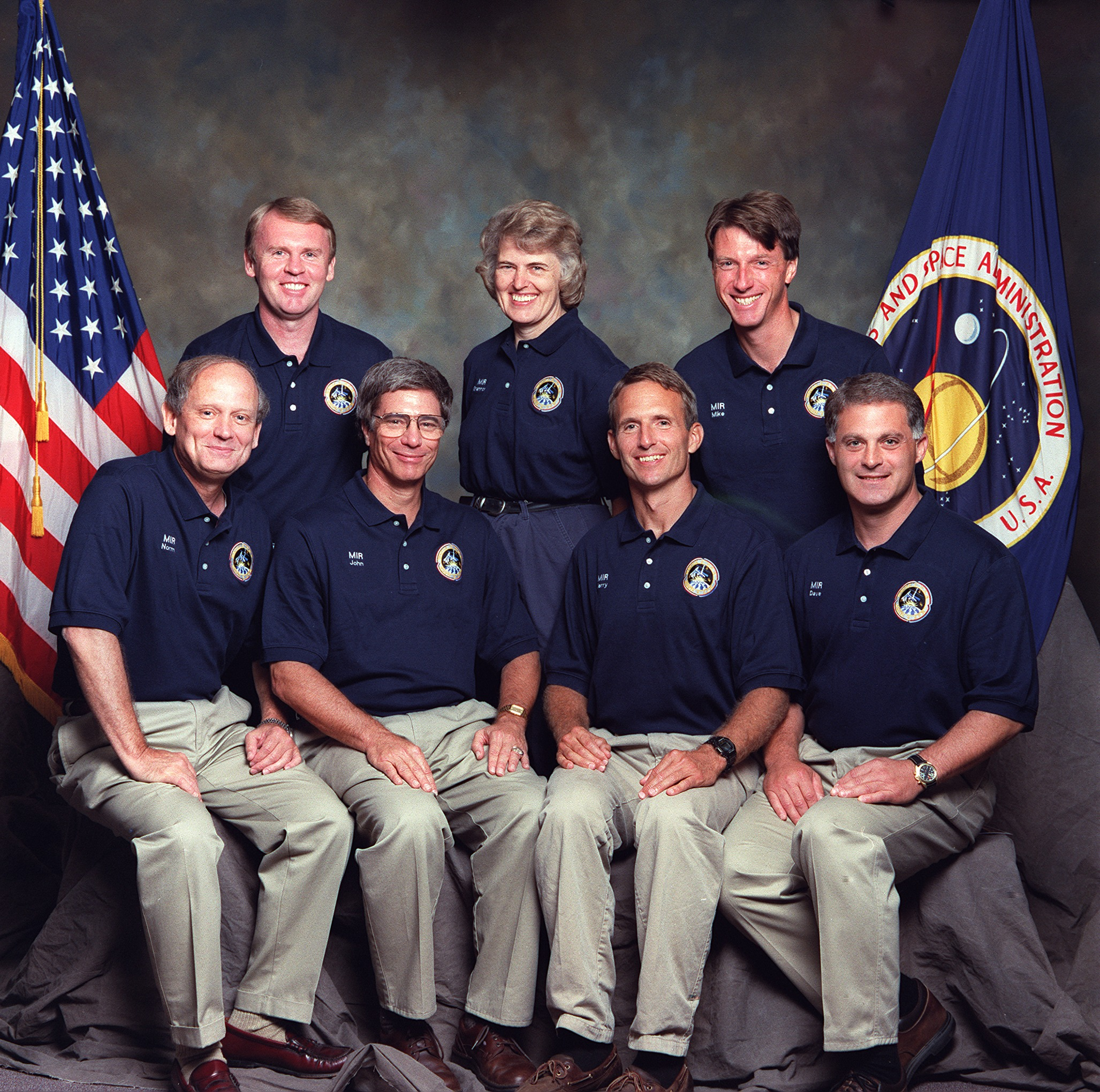 The Shuttle-Mir Increment astronauts pose for their official portrait - from left to right, Norman Thagard, Andrew Thomas, John Blaha, Shannon Lucid, Jerry Linenger, Michael Foale and David Wolf.